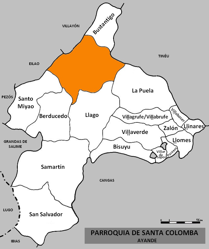 Situación de la parroquia de Santa Colomba nel mapa del conceyu d'Ayande